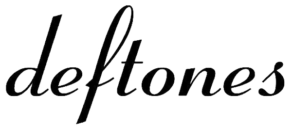 Deftones Logo